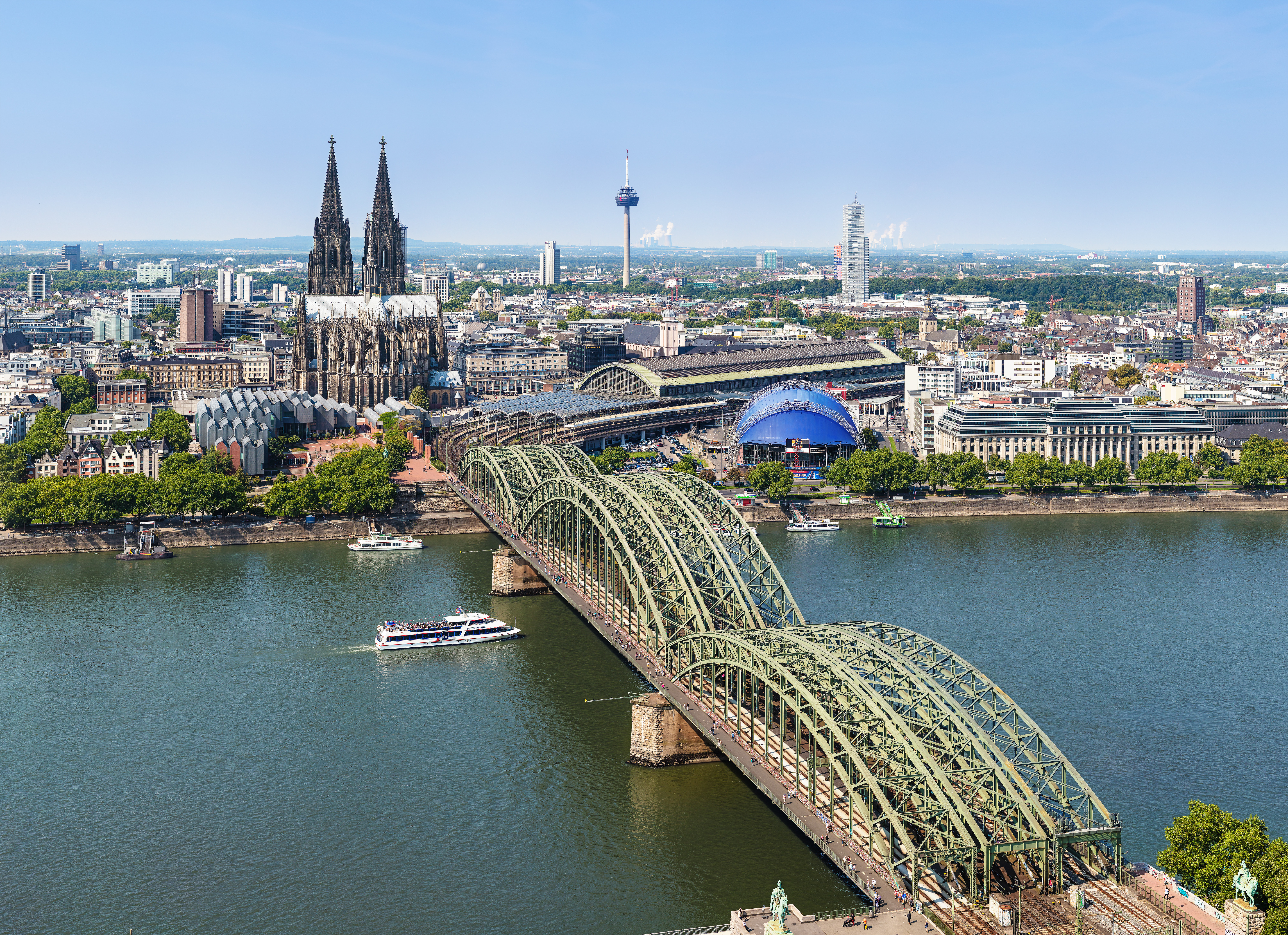 City center of Cologne, Germany.